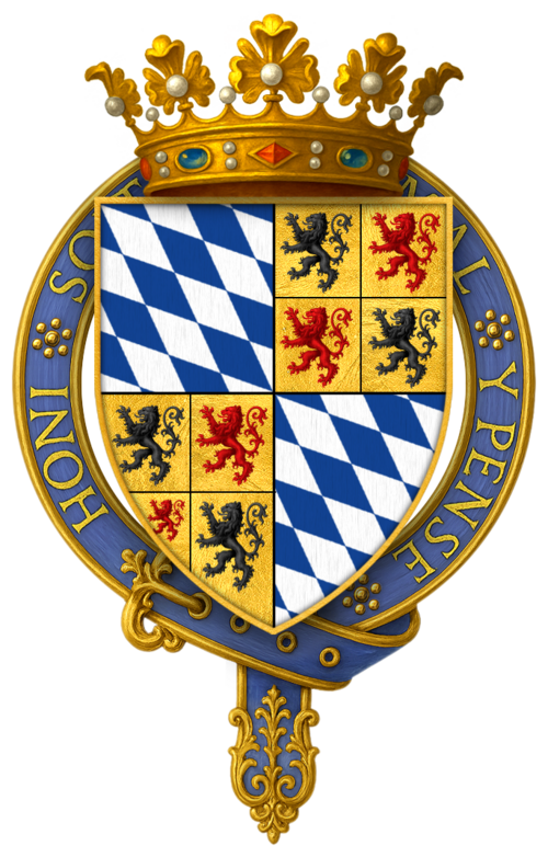 William VI, Count of Holland BELTZ, George Frederick, Memorials of the Order of the Garter from Its Foundation to the Present Time, London: William Pickering, 1841. “William of Bavaria. Count of Ostrevant… Arms: Quarterly, First and Fourth, bendy, lozenge, Argent and Azure, BAVARIA; Second and Third, Or, four lions rampant, the first and fourth Sable, the second and third Gules, HOLLAND.”